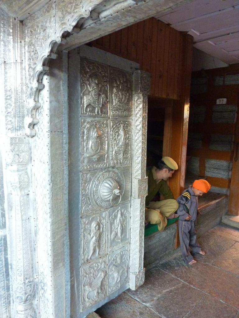 i took this photo of the silver gate to the temple in 2010